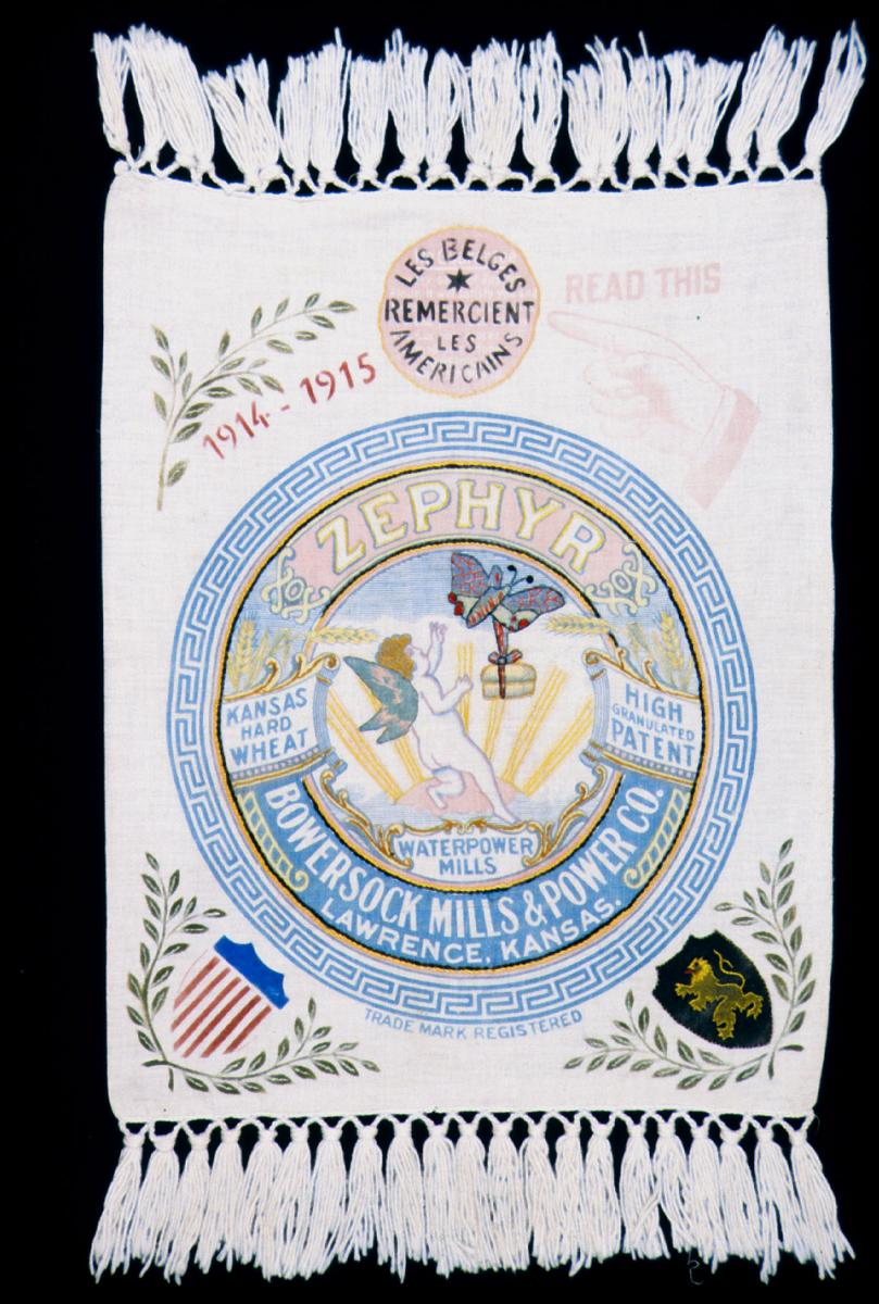 To show their gratitude the Belgians sent embroidered flour sacks to Herbert Hoover as gifts of thanks.